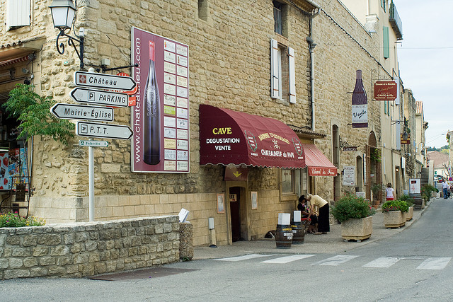 Chateauneuf du Pape-5 Degustation